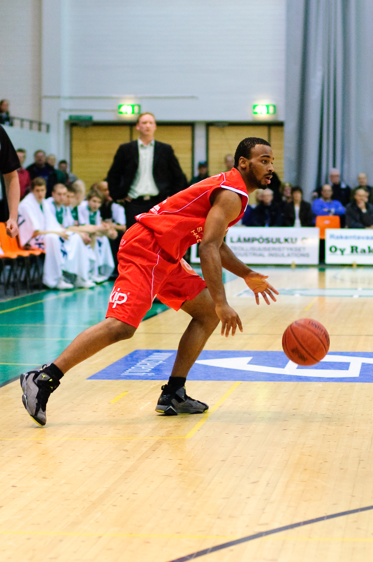 American basketball player Akeem Scott playing for Lappeenrannan NMKY against KTP-Basket at Steveco Areena in Kotka, Finland. KTP-Basket won the Finnish Basketball league playoff game 106-70 and advanced to the semi-final round by winning the series 3-0.